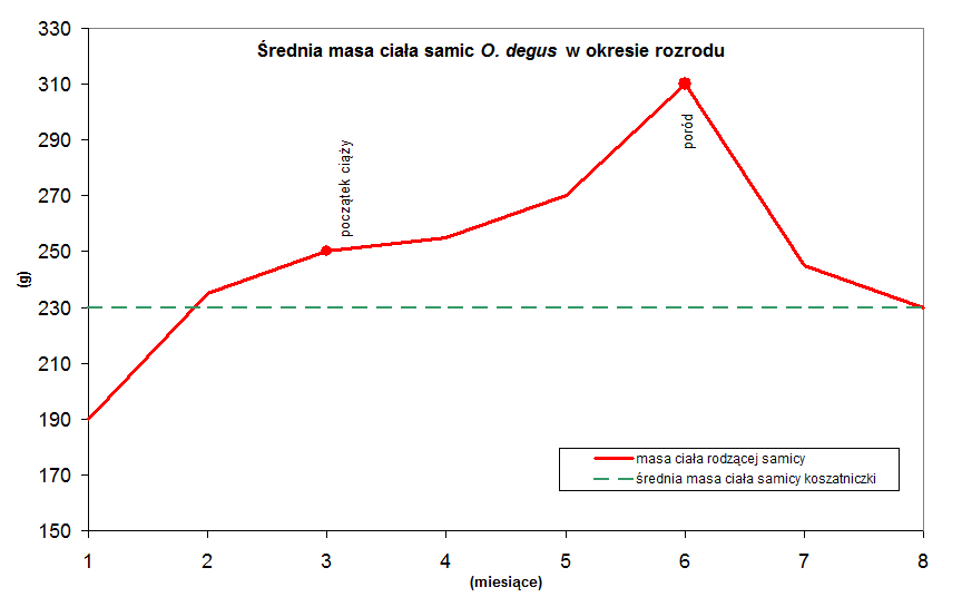 Monthly weights of breeding females of O. degus